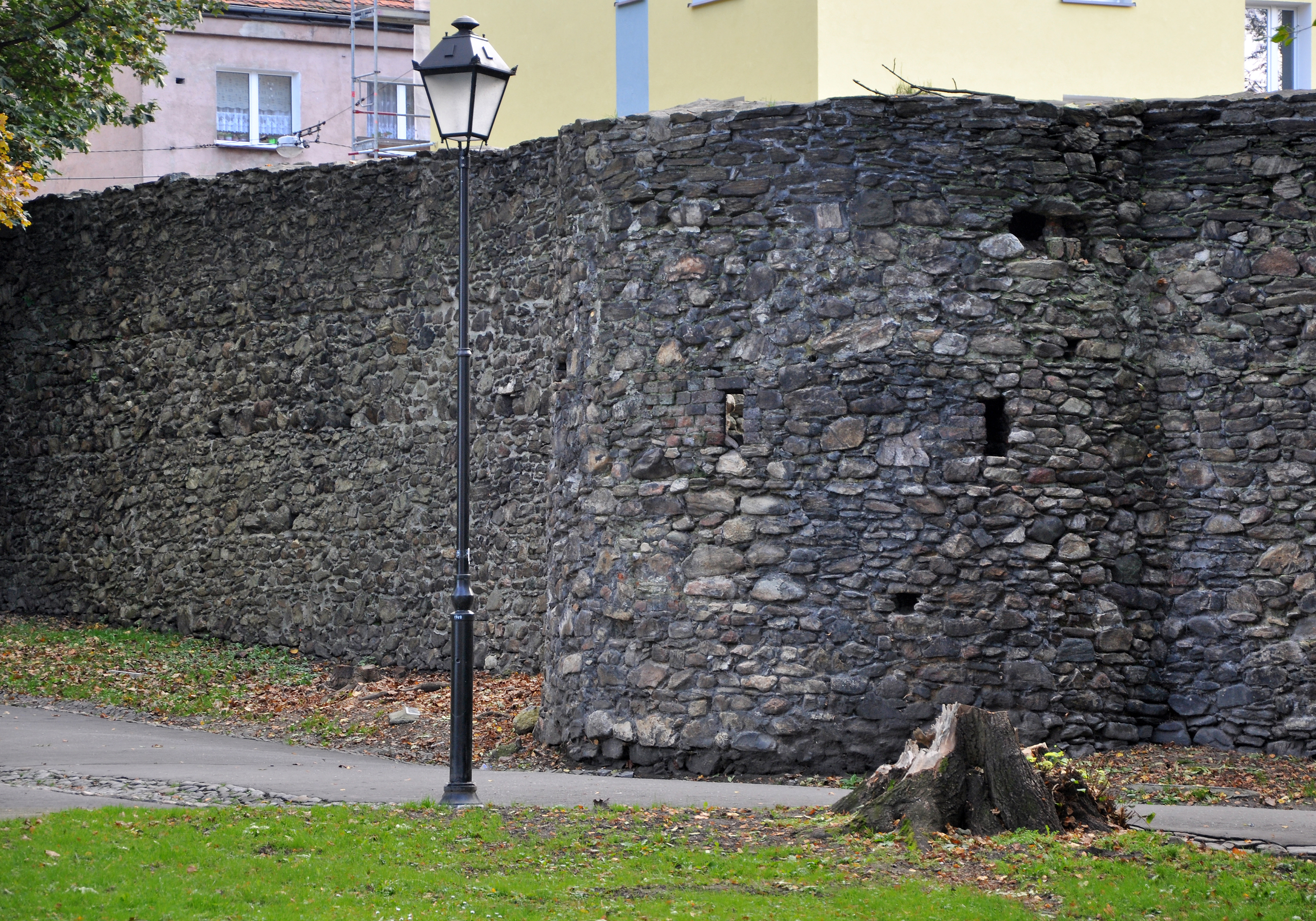 Defensive walls in Paczków